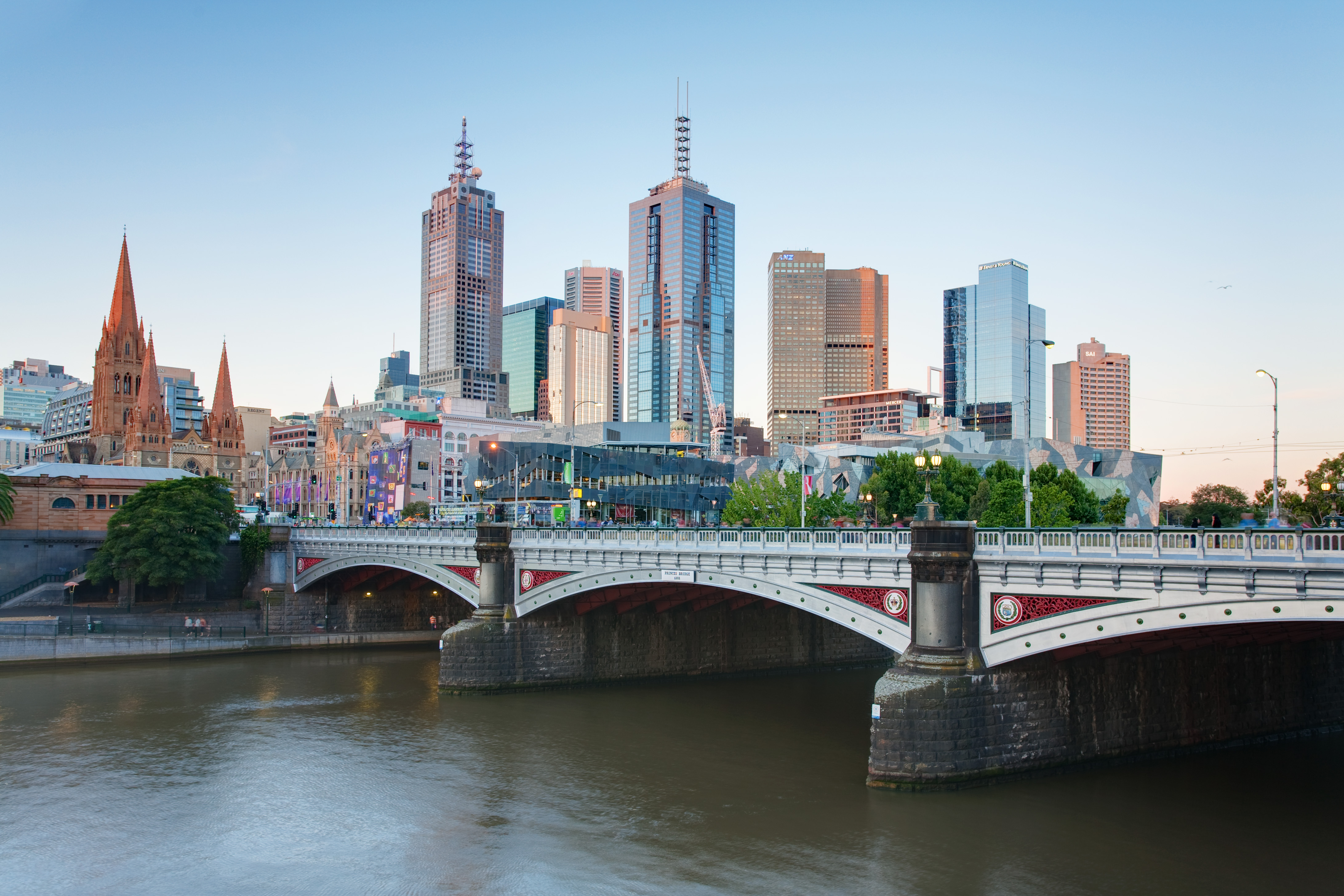 A HDR tone mapped image of the Melbourne skyline and Princes Bridge as viewed from Southbank. Taken by myself with a Canon 5D and 24-105mm f/4L IS lens.